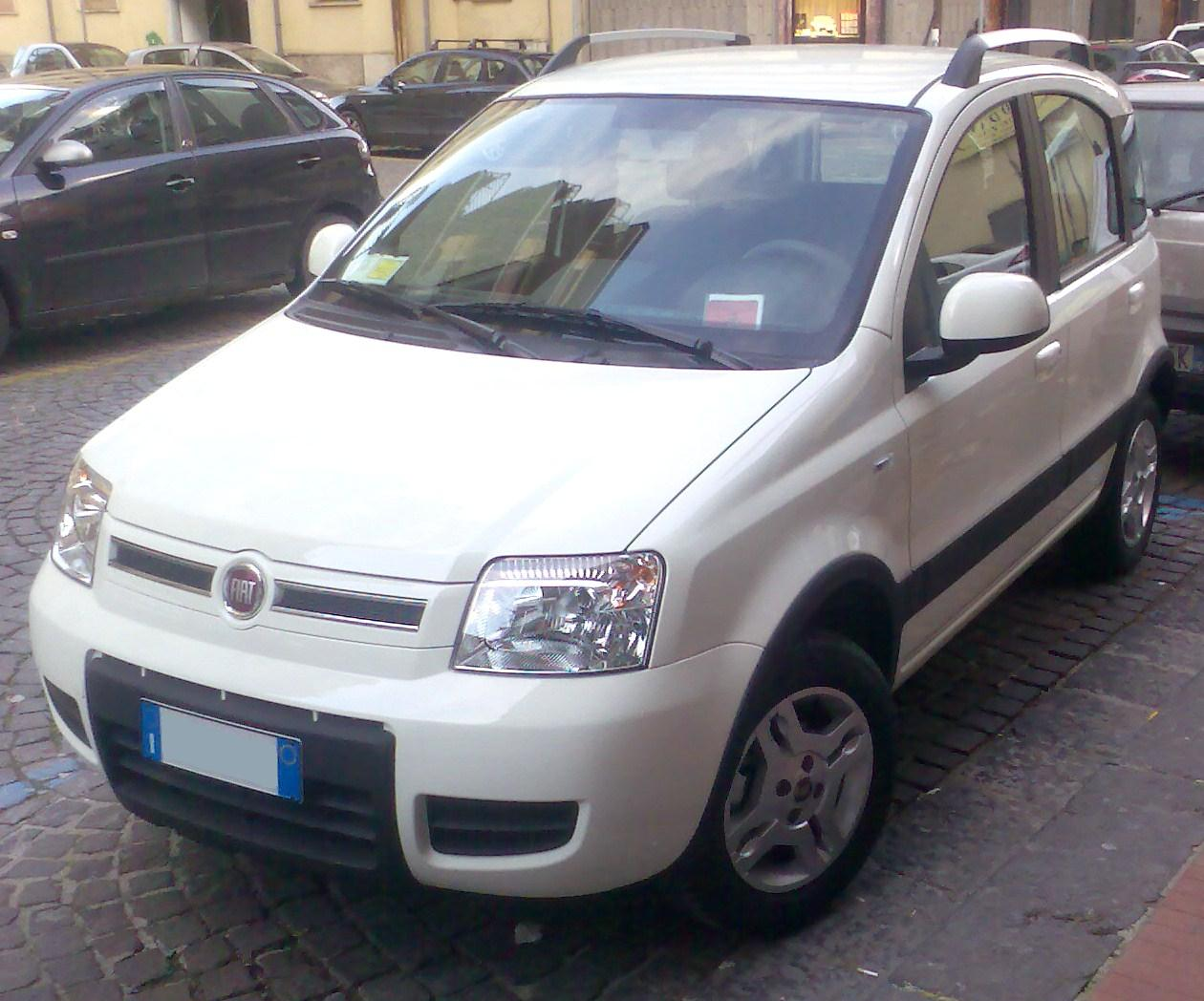 Fiat Panda 4x4 facelift.